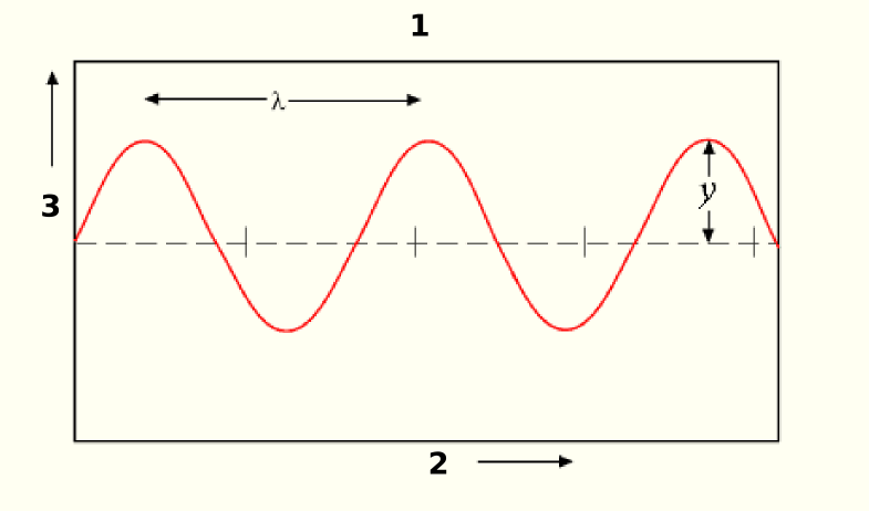 Internationalization of Wave diagram. 1= Description of a wave 2= Distance 3= Displacement λ= Wavelength γ= Amplitude